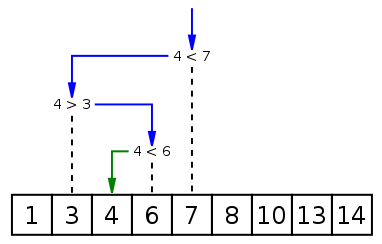 Binary search in a sorted array